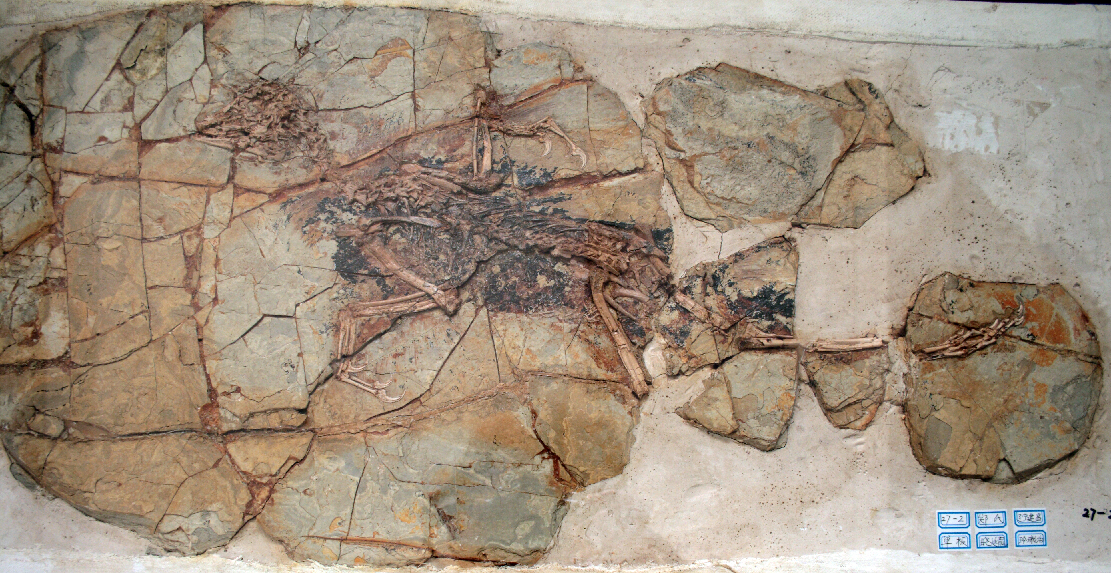 This fossil is the reason I ended up at the museum. It was the subject of a paper that redrew the phylogenic tree of birds and dinosaurs, to place Archaeopteryx on the dinosaur branch rather than the birds. I noticed that the fossil is at a museum in an area of China I was going to visit.